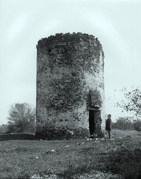 Photograph, ruins of old stone wind mill, Lower Ste. Anne Road, Sainte-Anne-de-Bellevue, QC, about 1895, Wm. Notman & Son. Silver salts on glass - Gelatin dry plate process, 25 x 20 cm.